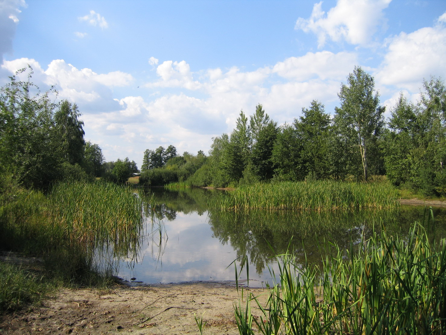 Dabrowki Brenskie